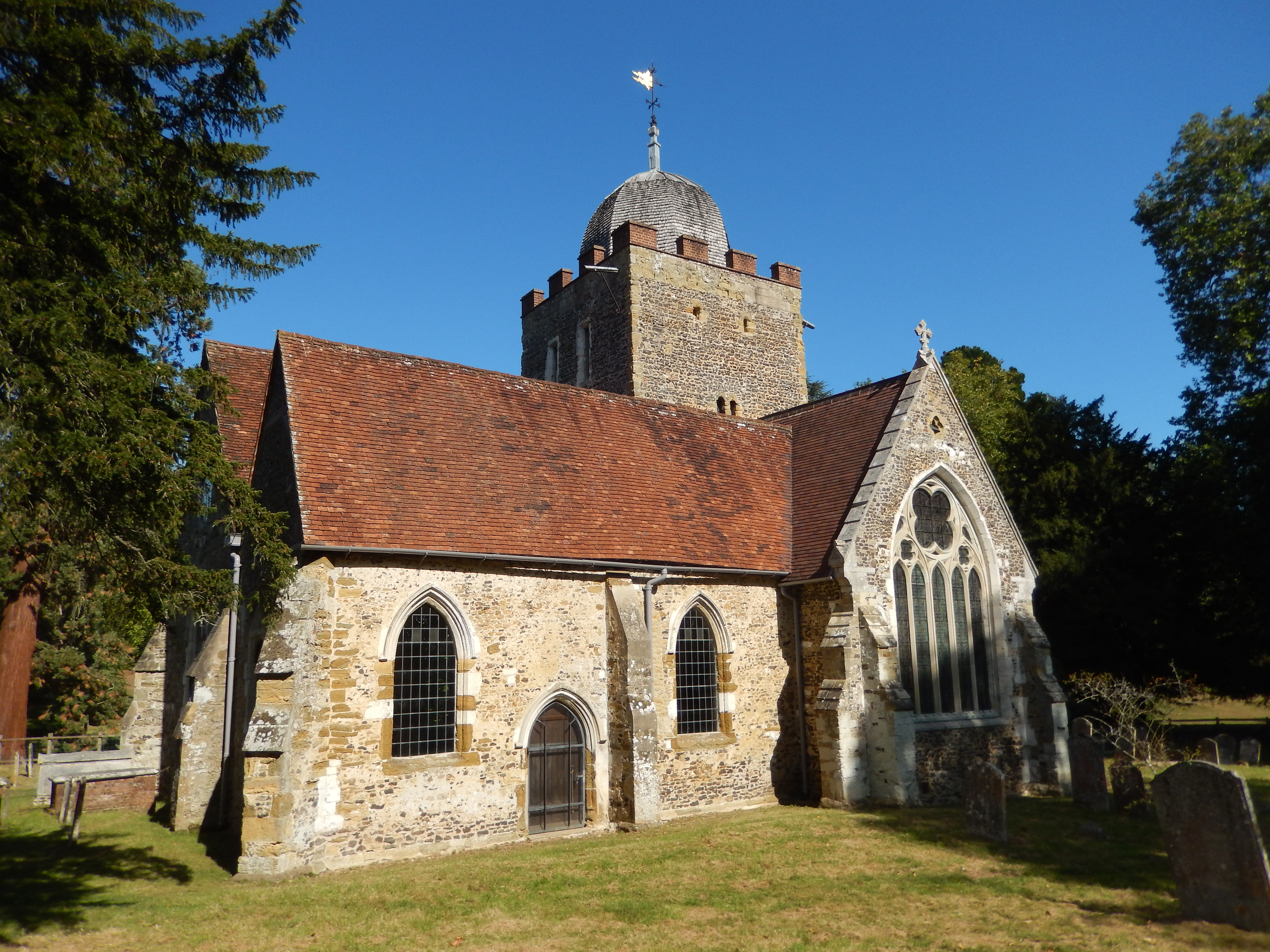 Old St Peter and St Paul Church, Albury, Surrey. View from the south-east.